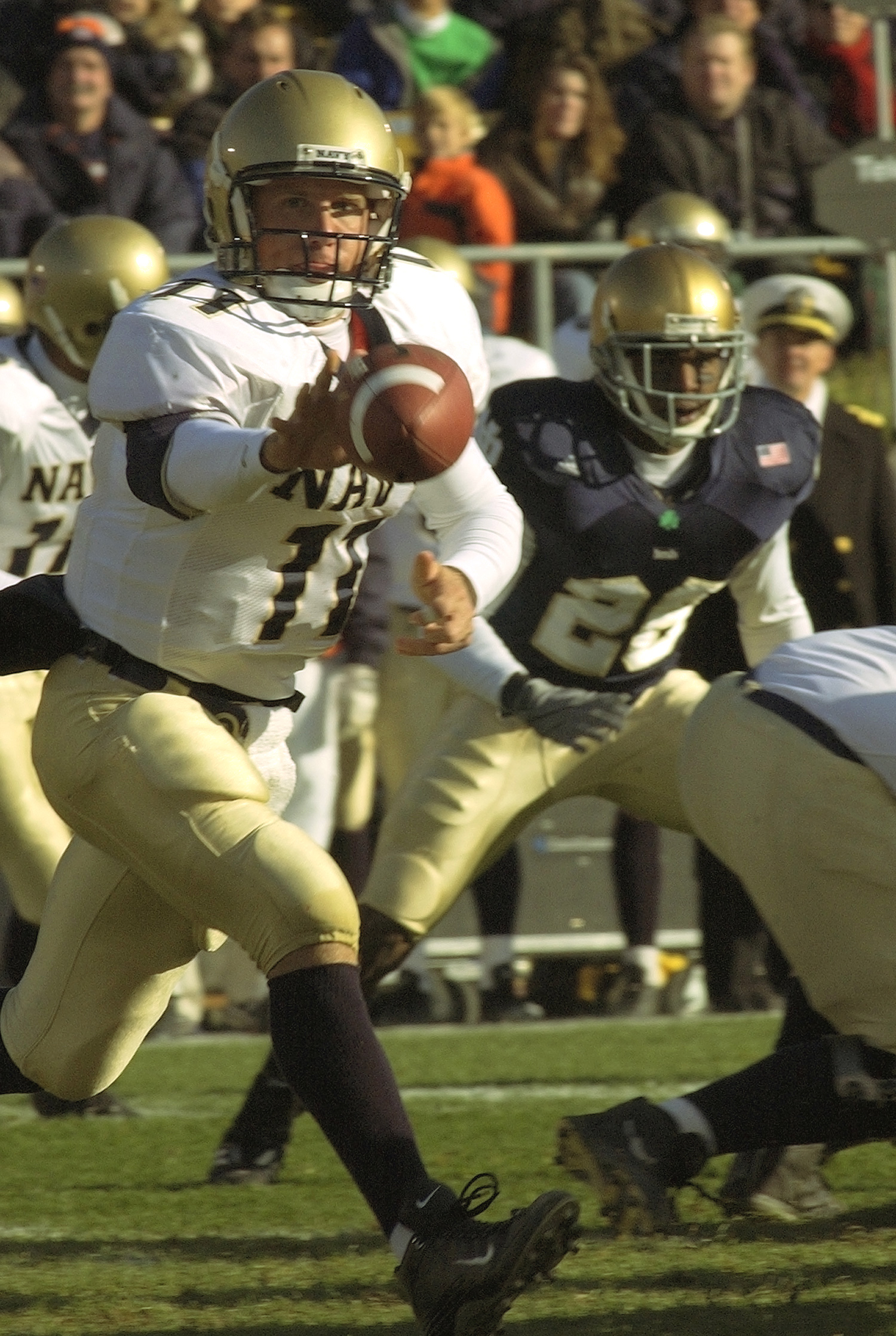 South Bend, Ind. (Nov. 8, 2003) -- Navy quarterback Craig Candeto pitches the ball out during the first quarter of play against Notre Dame in South Bend, Ind. during the Midshipmen’s 27-24 loss to the Fighting Irish. The victory for the Irish (3-6) not only broke the team's three-game slide at home, but also extended the NCAA record for consecutive wins over one opponent to 40 games. The last time Navy defeated Notre Dame was November 1963 when Roger Staubach was at the helm and claimed the Heisman Trophy. The Midshipmen are now 6-4 in the season. U.S. Navy photo by Chief Warrant Officer 4 Seth Rossman. (RELEASED)